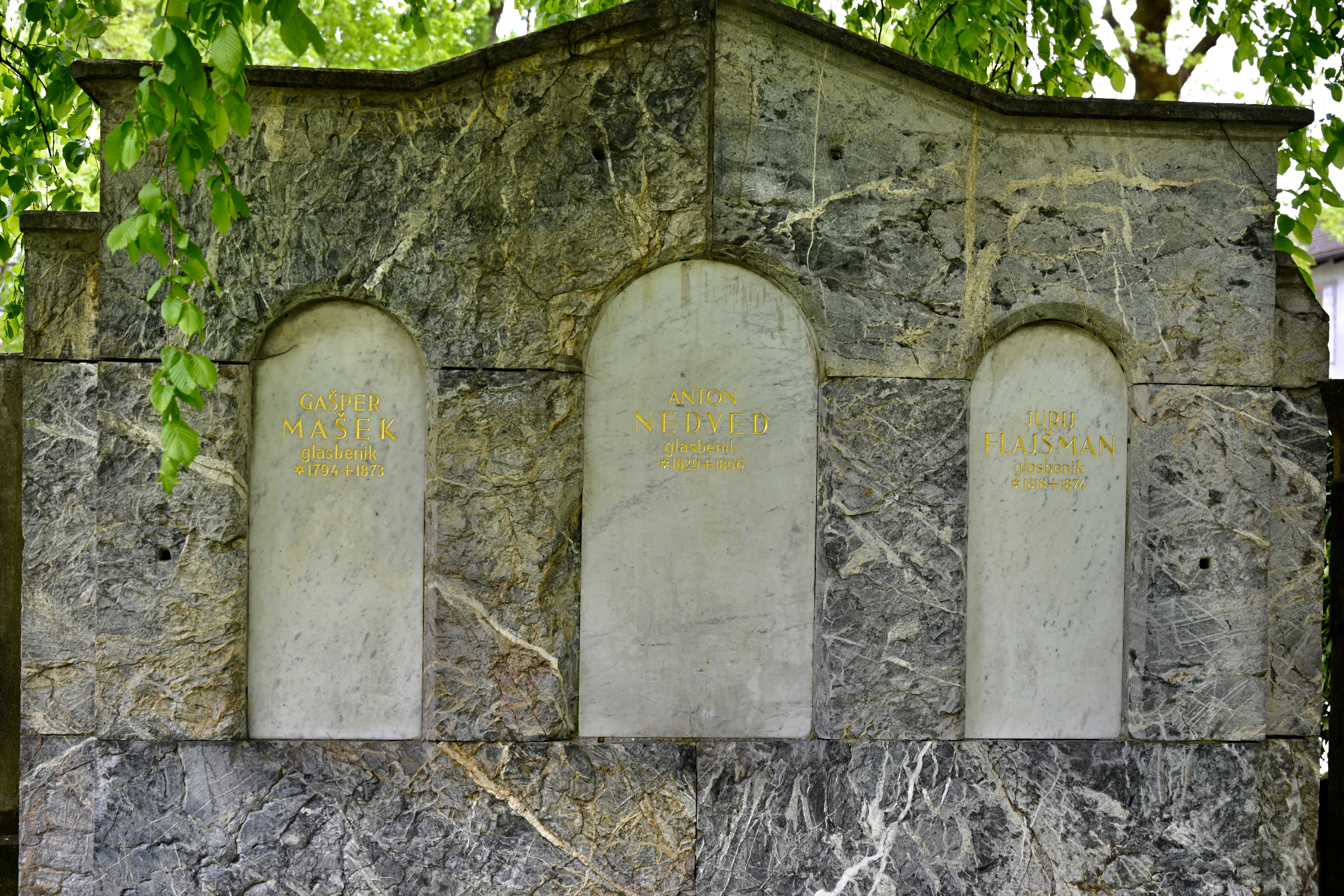 Gravestone of three musicians (Gašpar Mašek, Anton Nedved, Jurij Flajšman) at Navje, Ljubljana